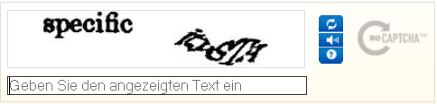 Screenshot of a Google reCAPTCHA with the word "specific" and the second word unreadable.